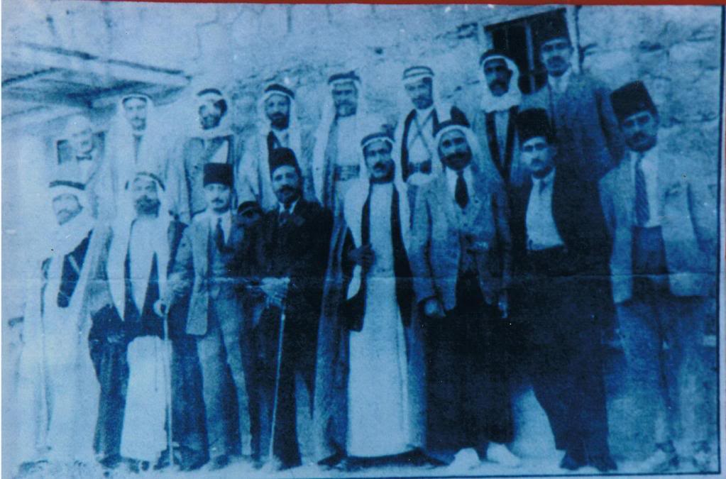 In 1945 a group of leaders of Jordan and the Levant welcomed the return of Prince Rashed Al Khuzai after eight years of residence and his family in Saudi Arabia, where they were hosted by Abdulaziz Ibn Saud - King of Saudi Arabia